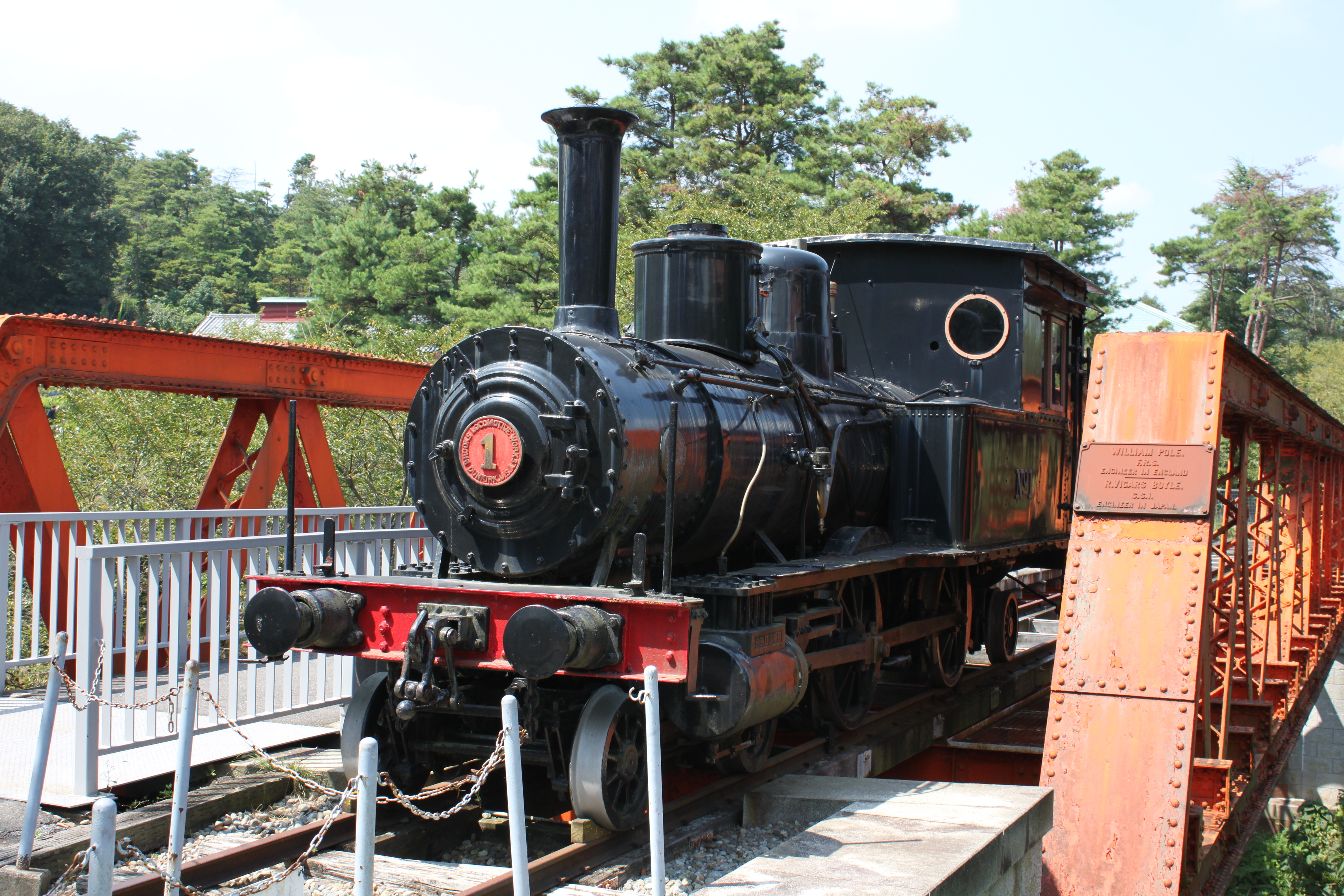 Bisai Railway No.1 steam locomotive in Meijimura